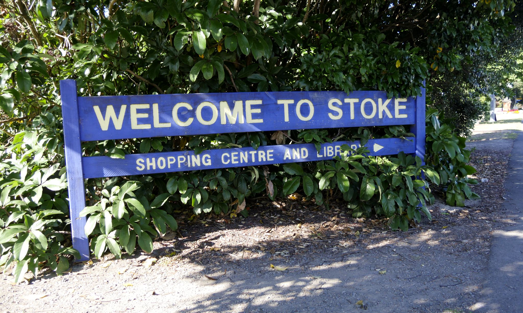 Welcome sign, Stoke, suburb of Nelson, South Island, New Zealand